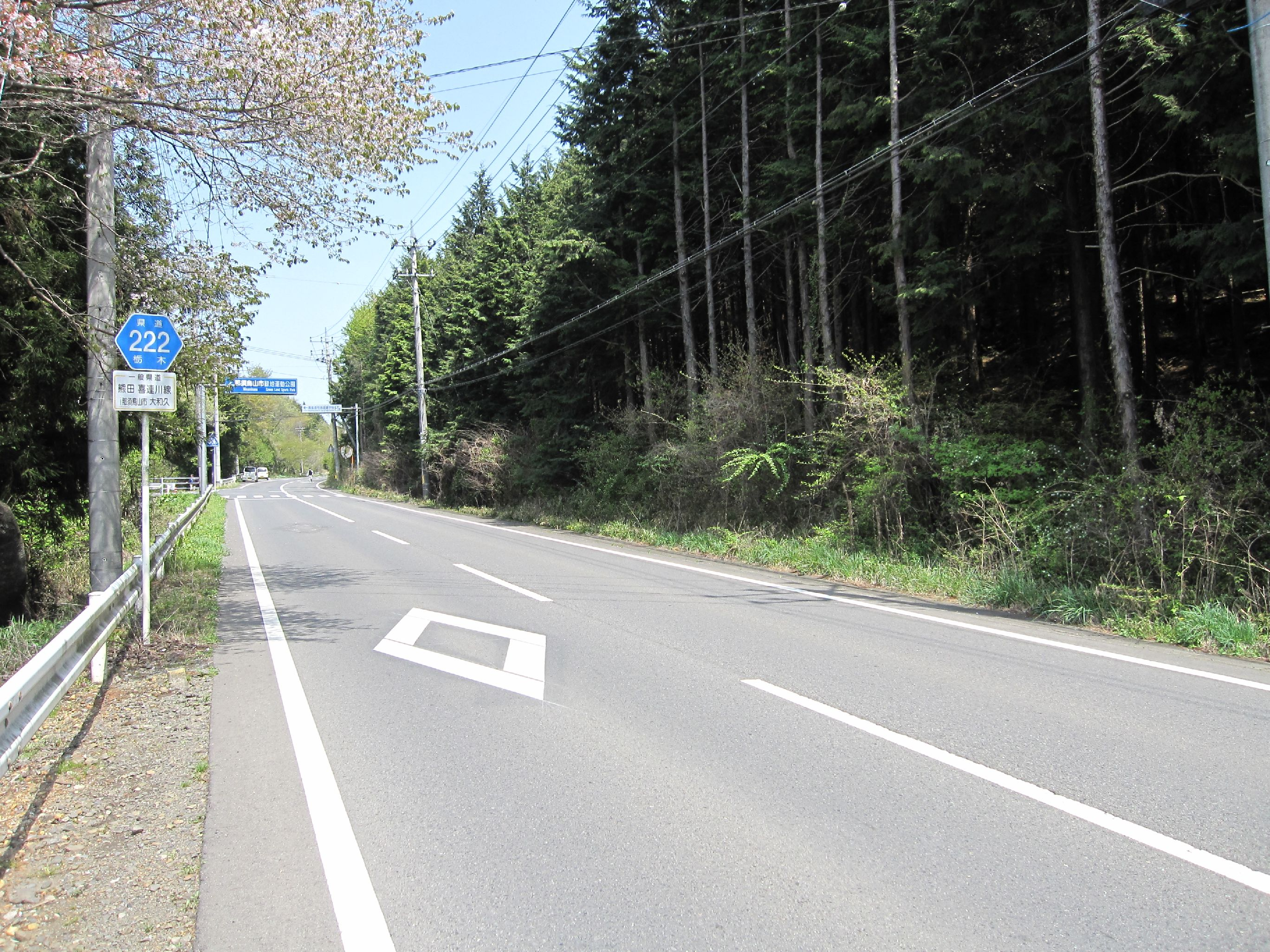 Tochigi prefectural road No.222 on Nasukarasuyama city